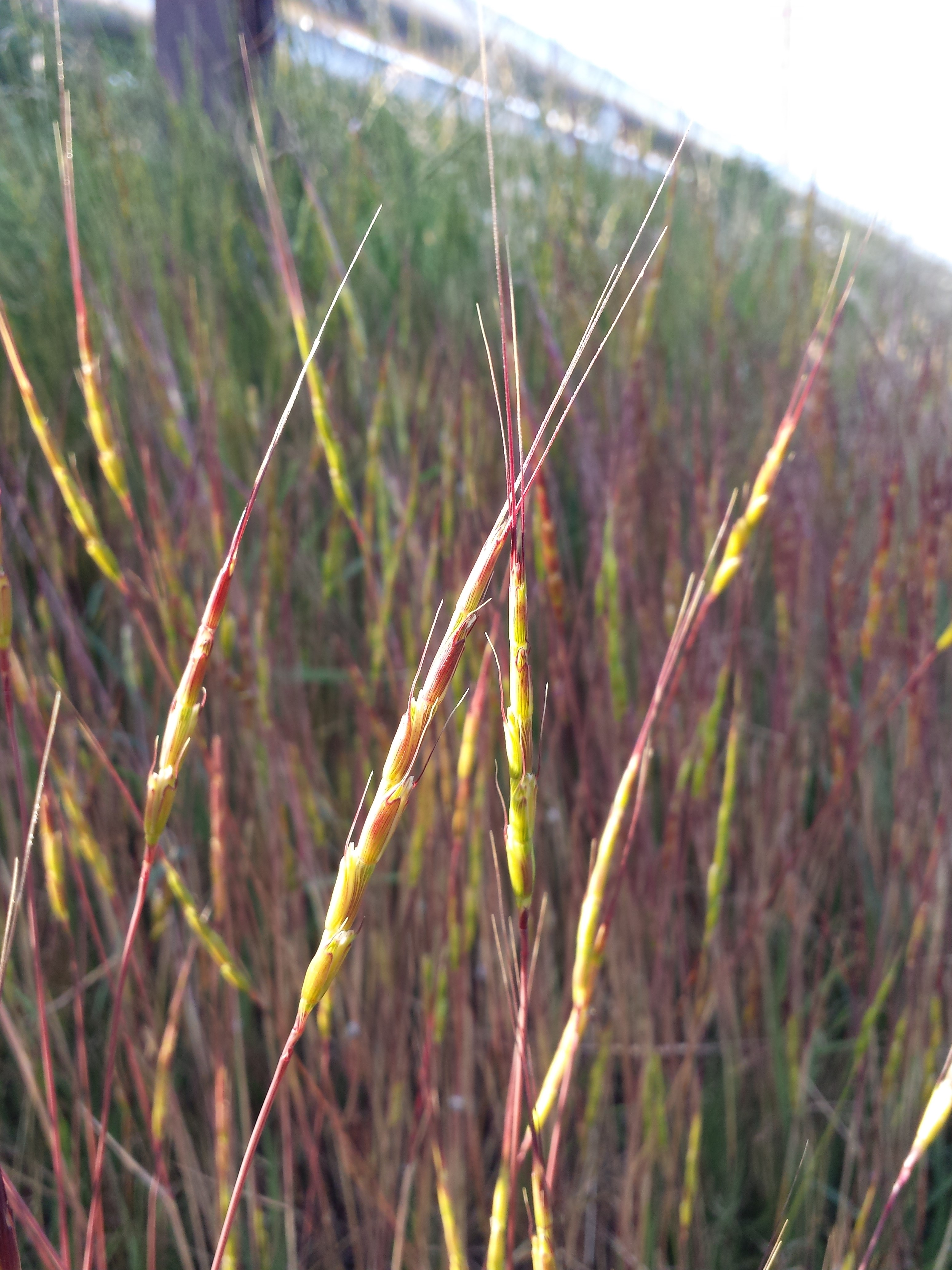 Spikes Taxonym: Aegilops cylindrica ss Fischer et al. EfÖLS 2008 ISBN 978-3-85474-187-9 Location: Floridsdorf rail station, Vienna-Floridsdorf - ca. 160 m a.s.l. Habitat: rail ruderal area